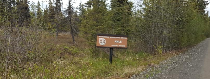 sign at broadcast site for KNLS radio near Anchor Point, Alaska